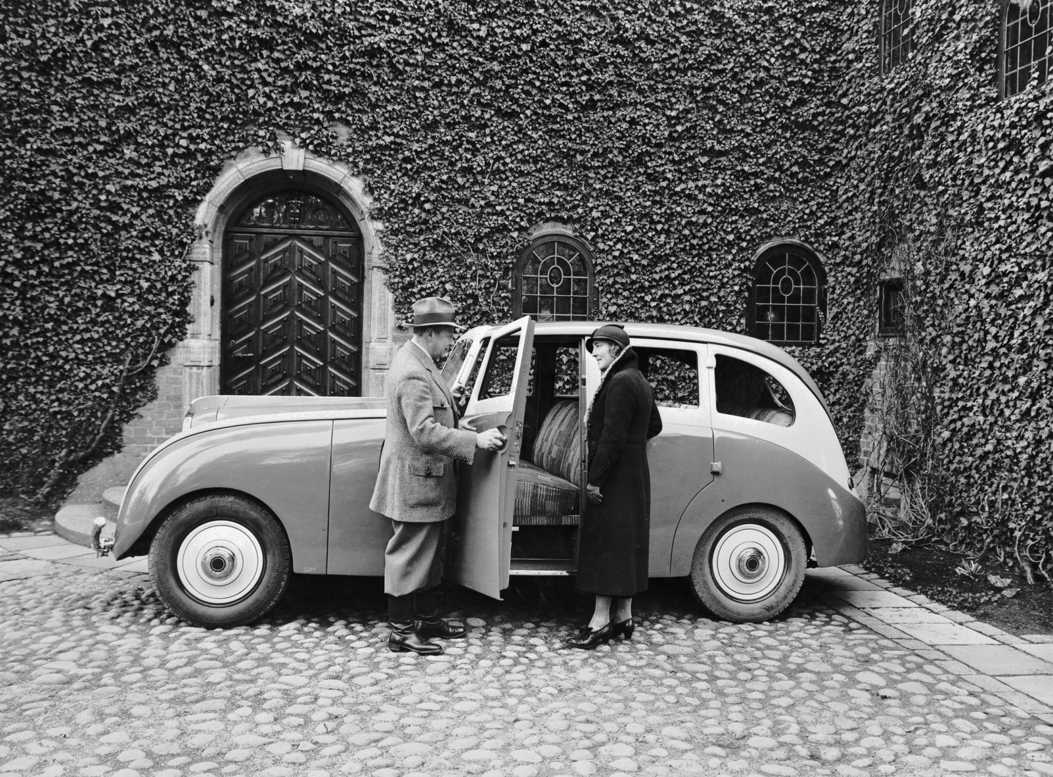 A prototype of Venus Bilo by Gustaf L.M. Ericsson, pictured in the paper Idrottsbladet in November 23. 1933.